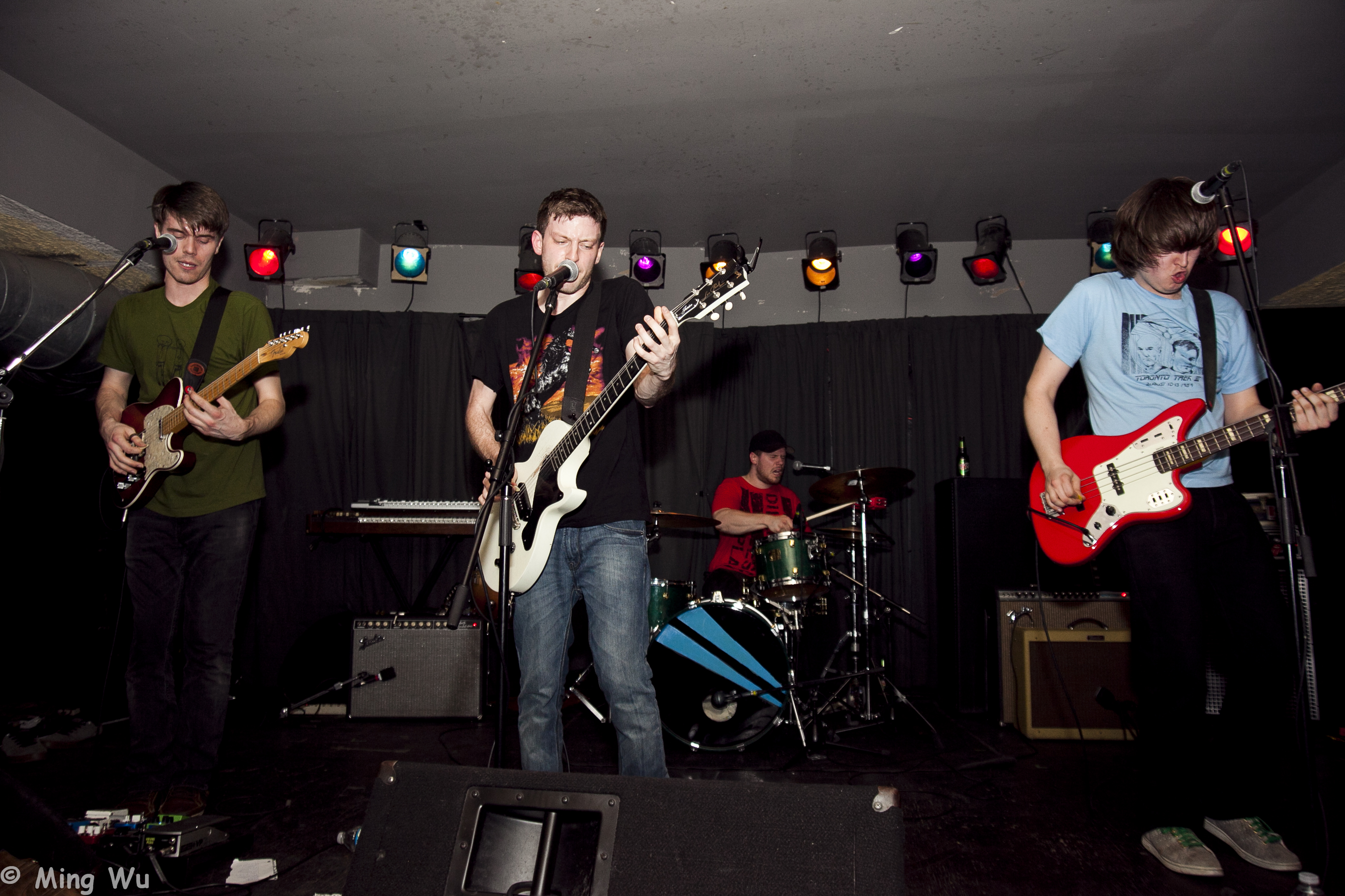 Topanga (now known as PUP) performing at Mavericks, a bar in Ottawa, on April 7, 2012.